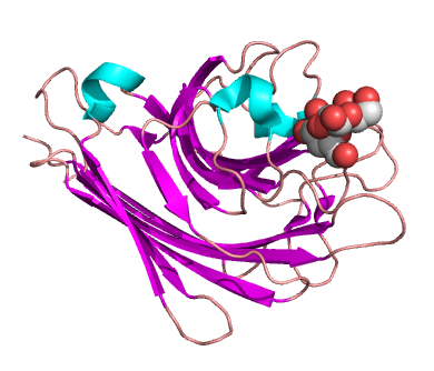 monomer of peanut agglutinin with disaccharide bound, PDB file 2dvd